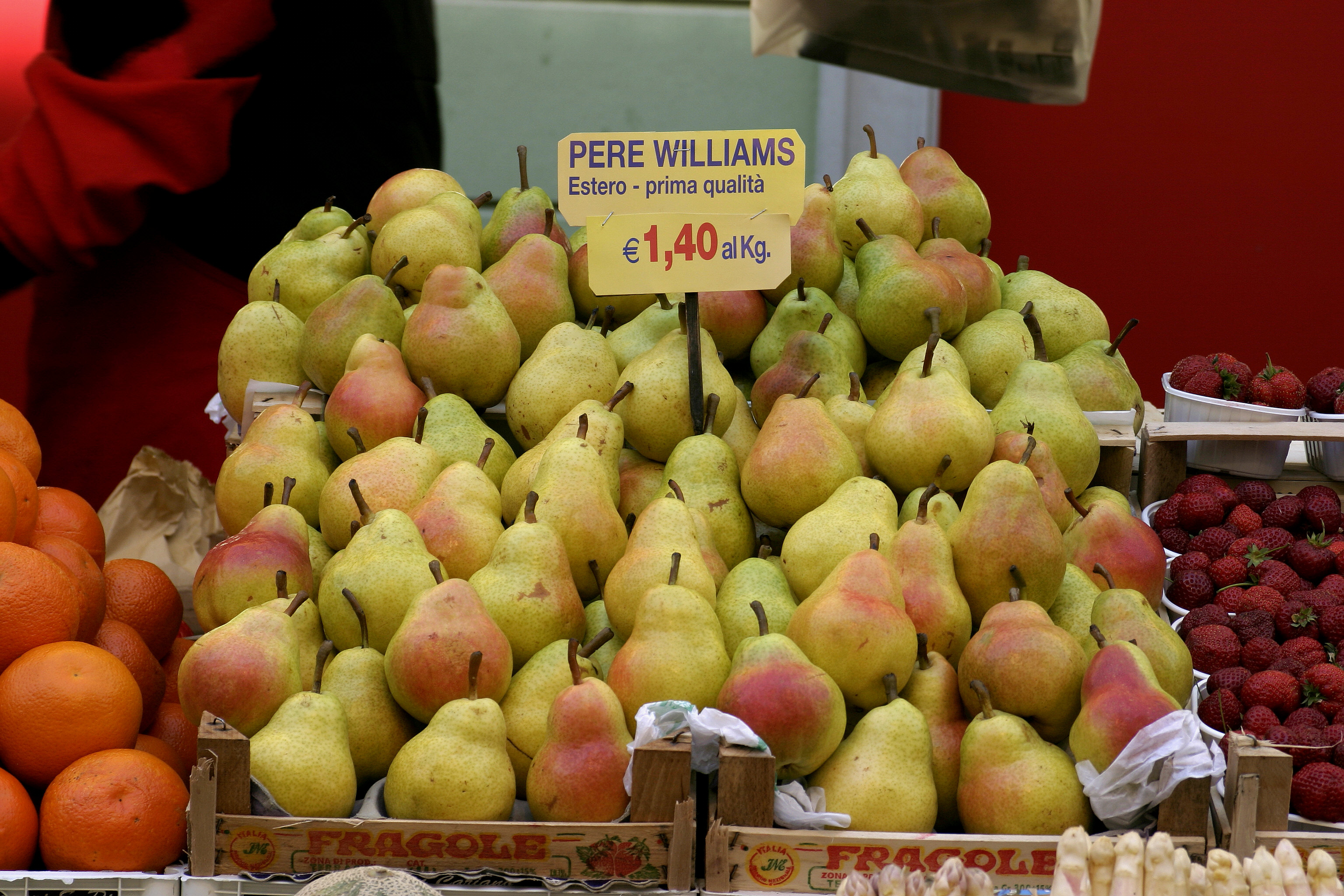 Williams Christ Pear